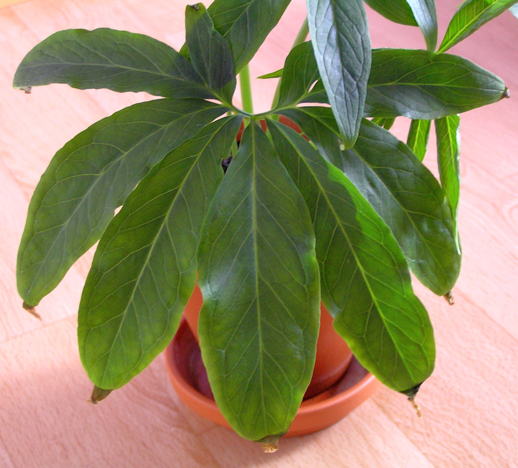 Pinellia pedatisecta leaf